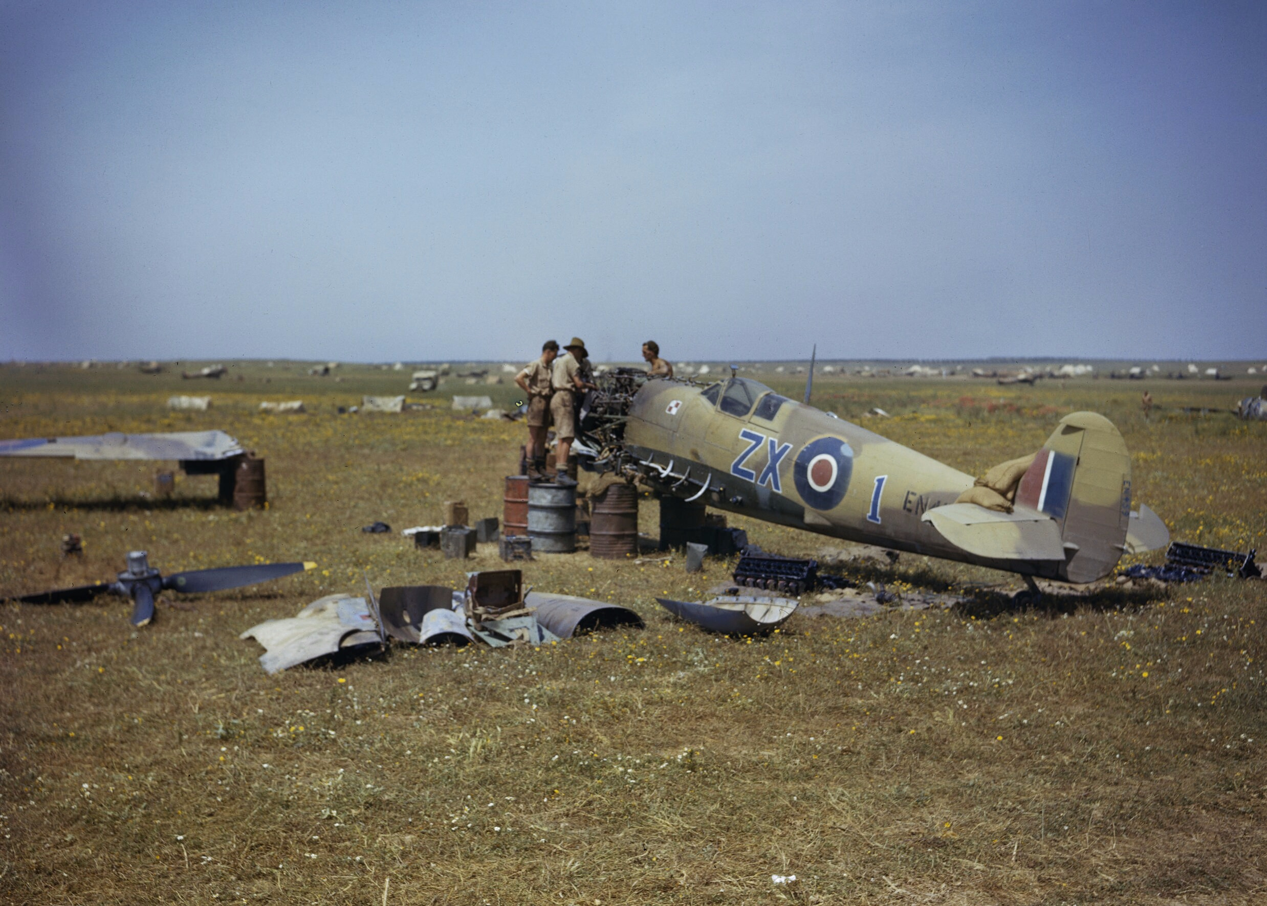 An Advanced Servicing Unit dismantles Supermarine Spitfire Mark IX, EN459 'ZX-1', of the Polish Fighting Team, attached to No 145 Squadron, RAF in Tunisia. The aircraft was damaged on 6 April 1943 when, after shooting down a Messerschmitt Bf 109, it was attacked by another Bf 109 and hit in the engine. The pilot, Flight Lieutenant Eugeniusz Horbaczewski, was able to glide in to Gabes for a forced landing.